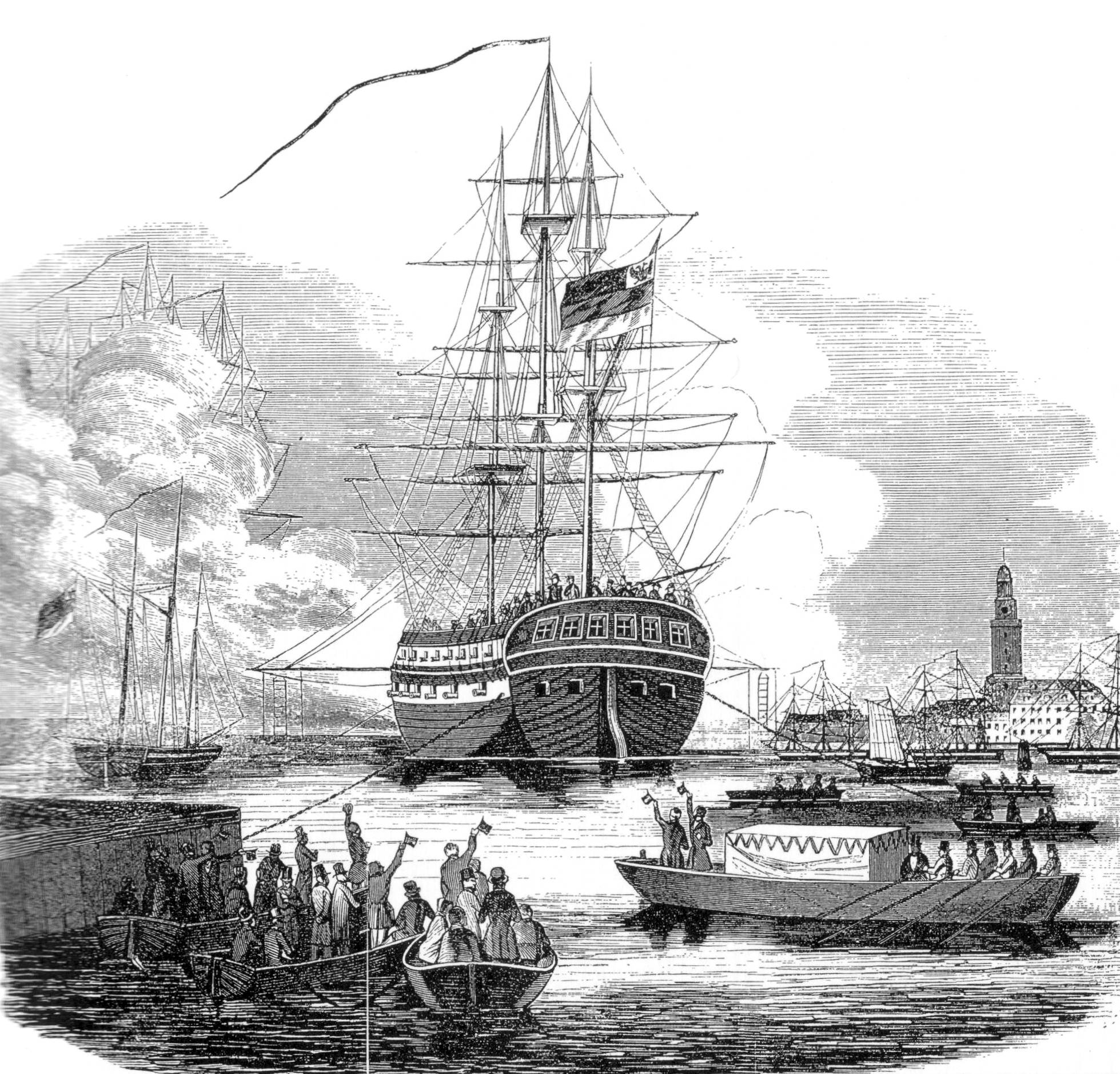 Imperial Fleet.